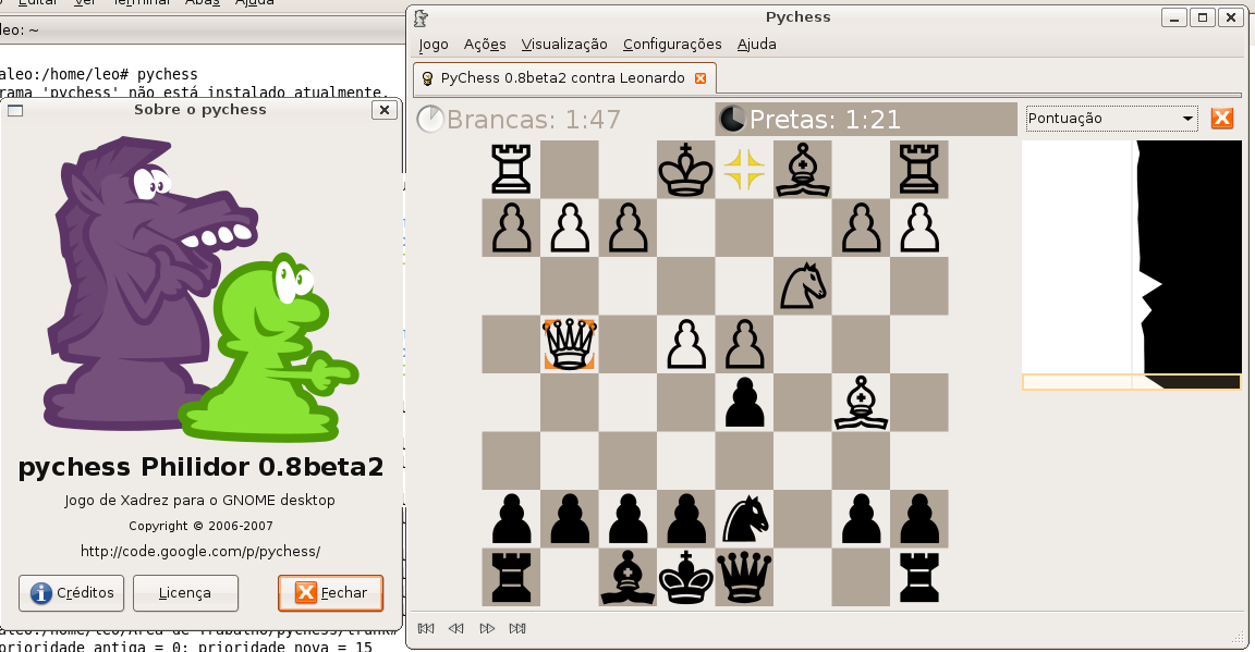 Play chess with Pychess software